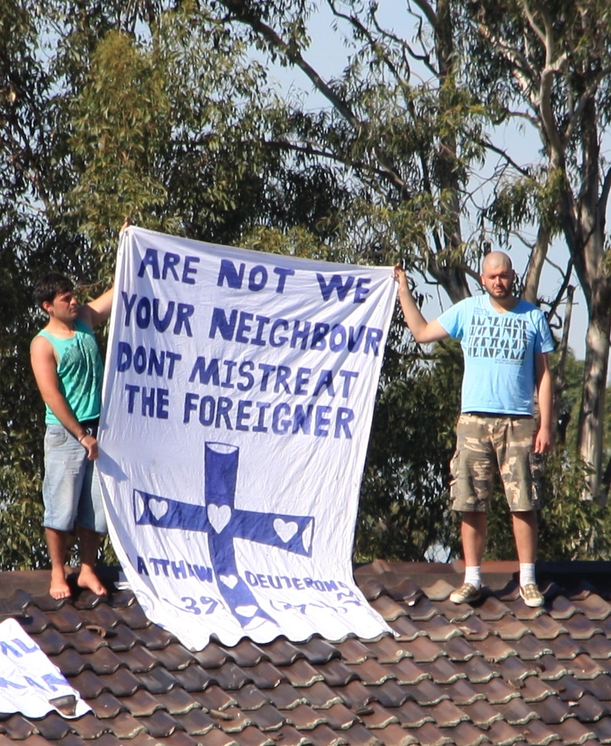 Asylum seekers protesting on the roof of the Villawood immigration detention centre in Sydney, Australia